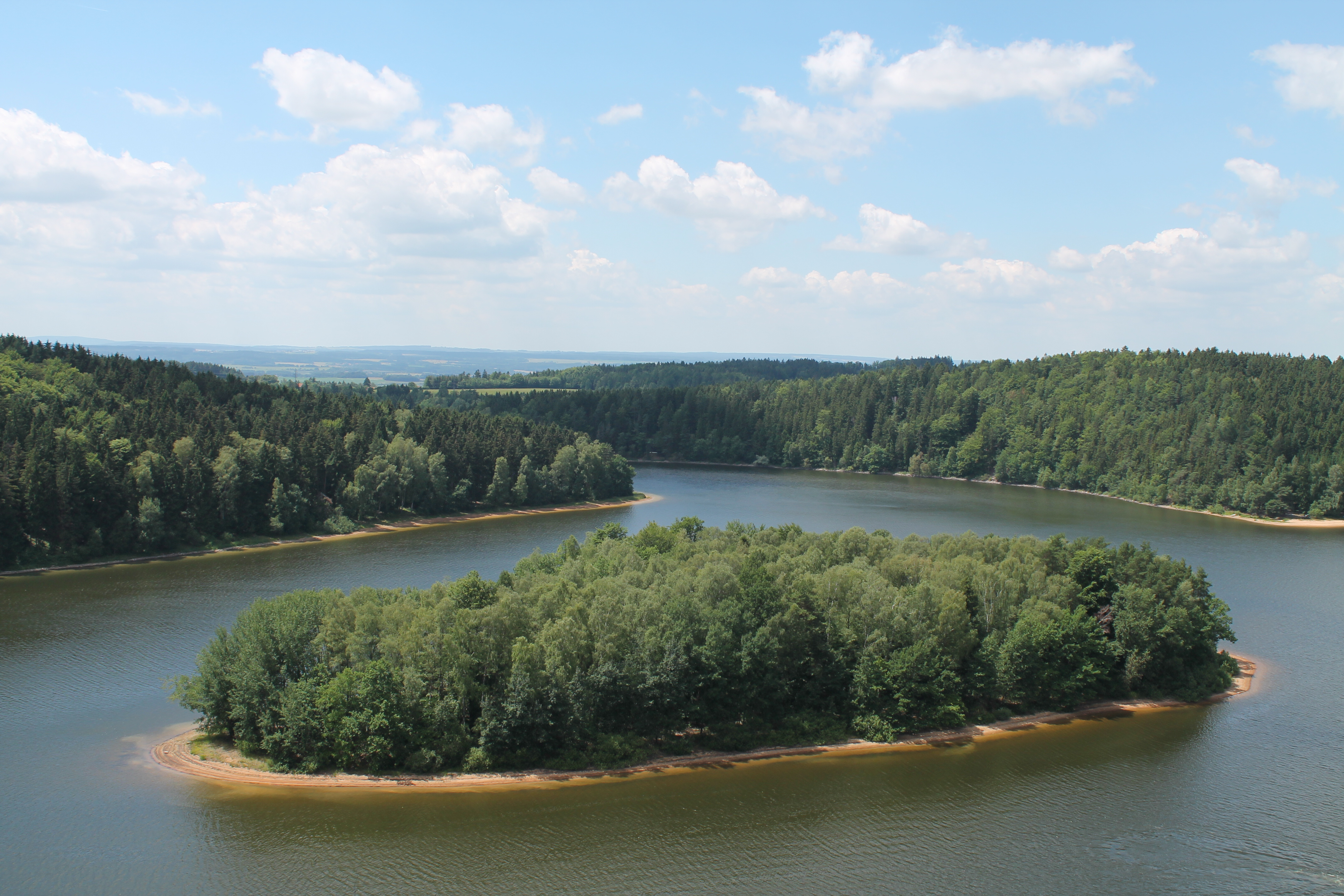 Seč Reservoir, Seč, Chrudim District, Czech Republic